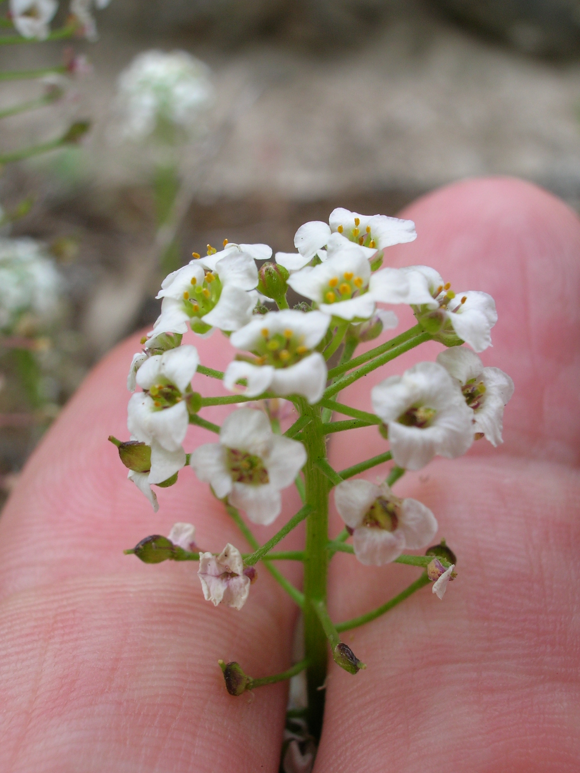 Lobularia maritima (flowers). Location: Maui, Kula